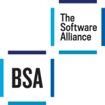 BSA (The Software Alliance) logo, which, according to the Wayback Machine, began appearing on the BSA website in November 2012. The logo appears in an October 10, 2012 video published by the BSA.